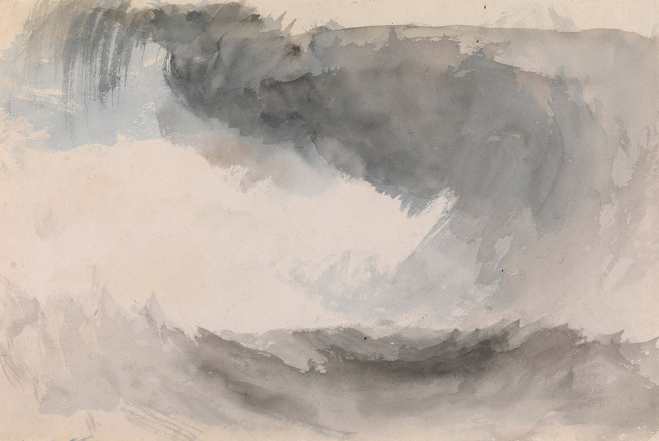 Storm at Sea.